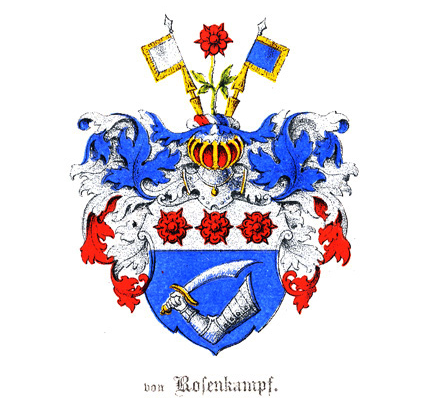 Coat of arms of Rosenkampf